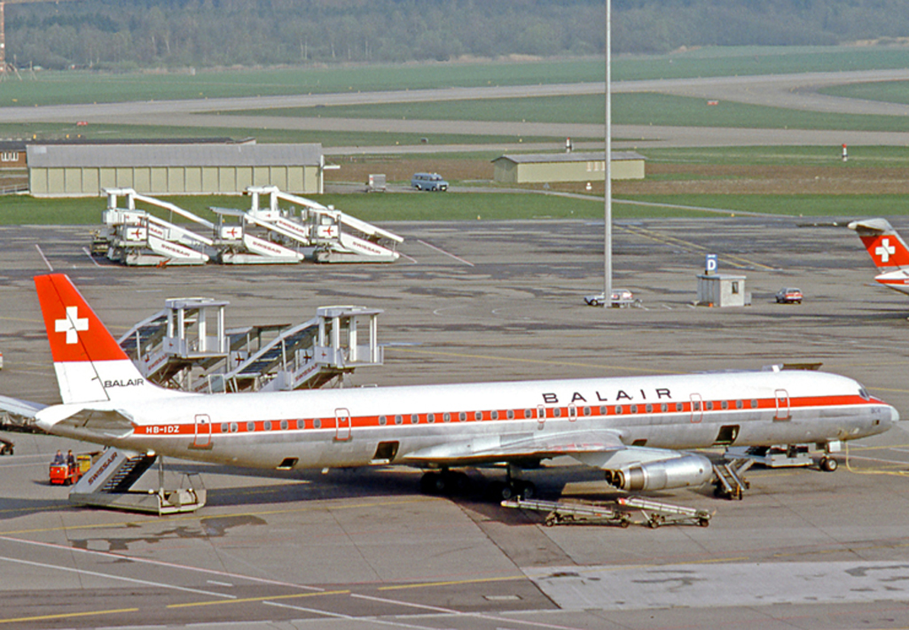 Douglas DC-8-63CF HB-IDZ of Balair AG at Zurich Airport in 1979